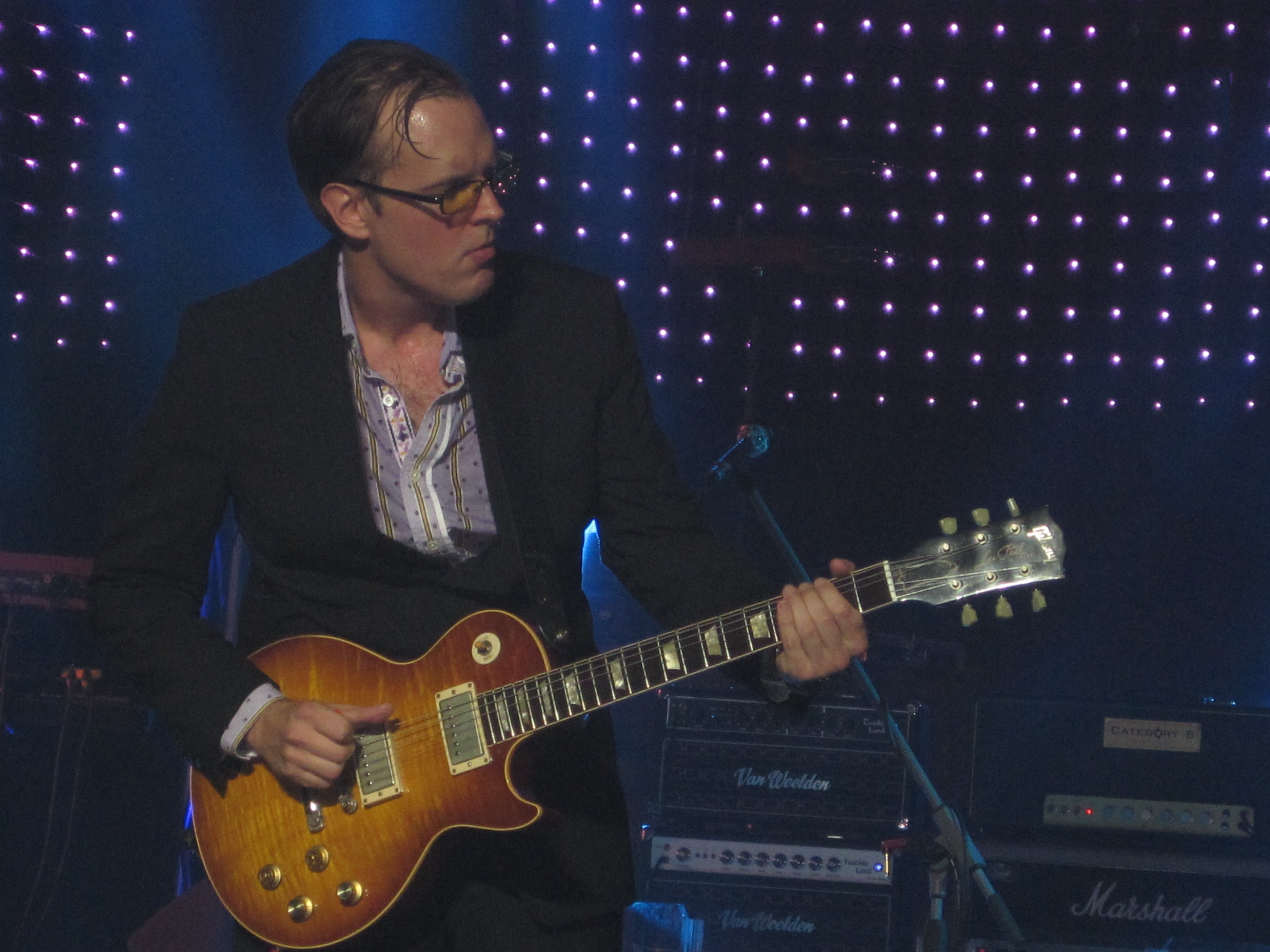 Joe Bonamassa on stage at the O2 Apollo in Manchester, England, October 2010